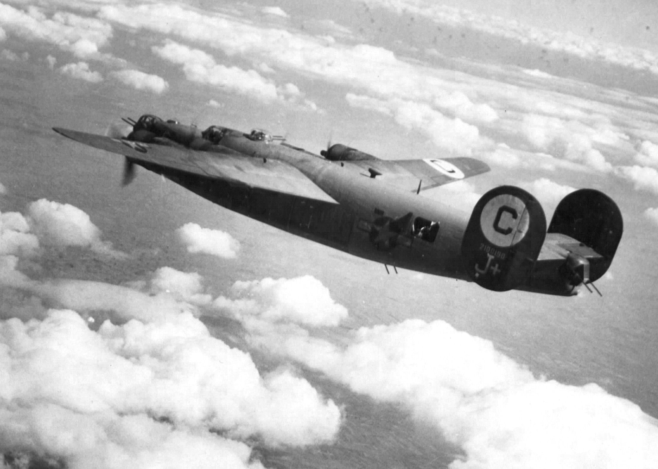 Named "Princess Konocti" B-24J-80-CO Liberator s/n 42-100190 566th Bomb Squadron (RCL = RR-J+), 389th Bomb Group, 8th Air Force. This plane diverted to Sweden on June 20,1944 and was interned.